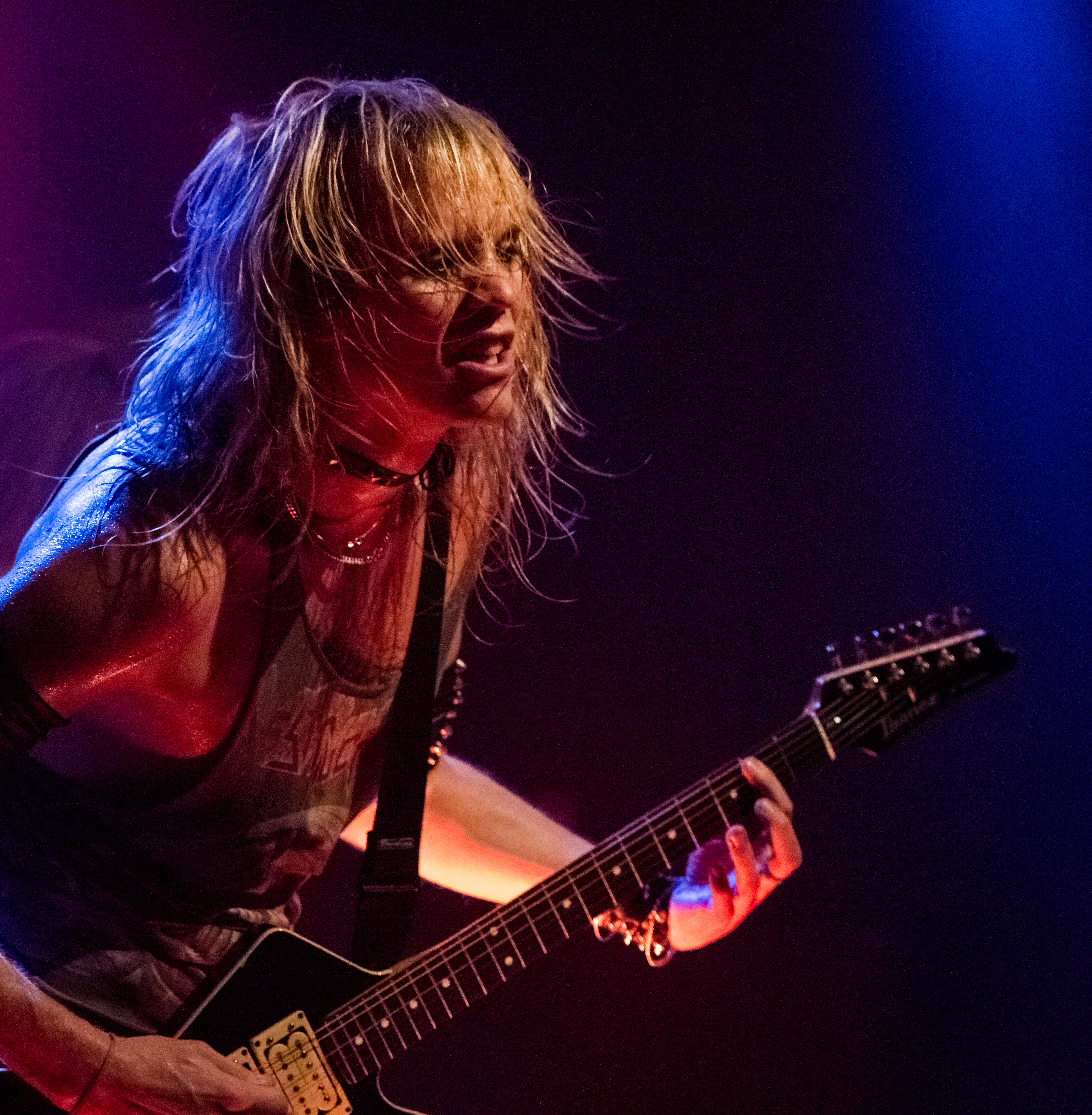 Enforcer - Börsencrash Festival 2015